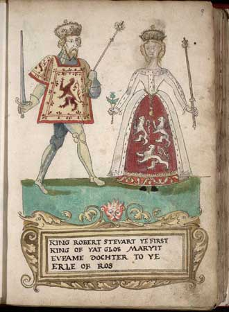 King Robert II of Scotland and his wife, Euphemia of Ross